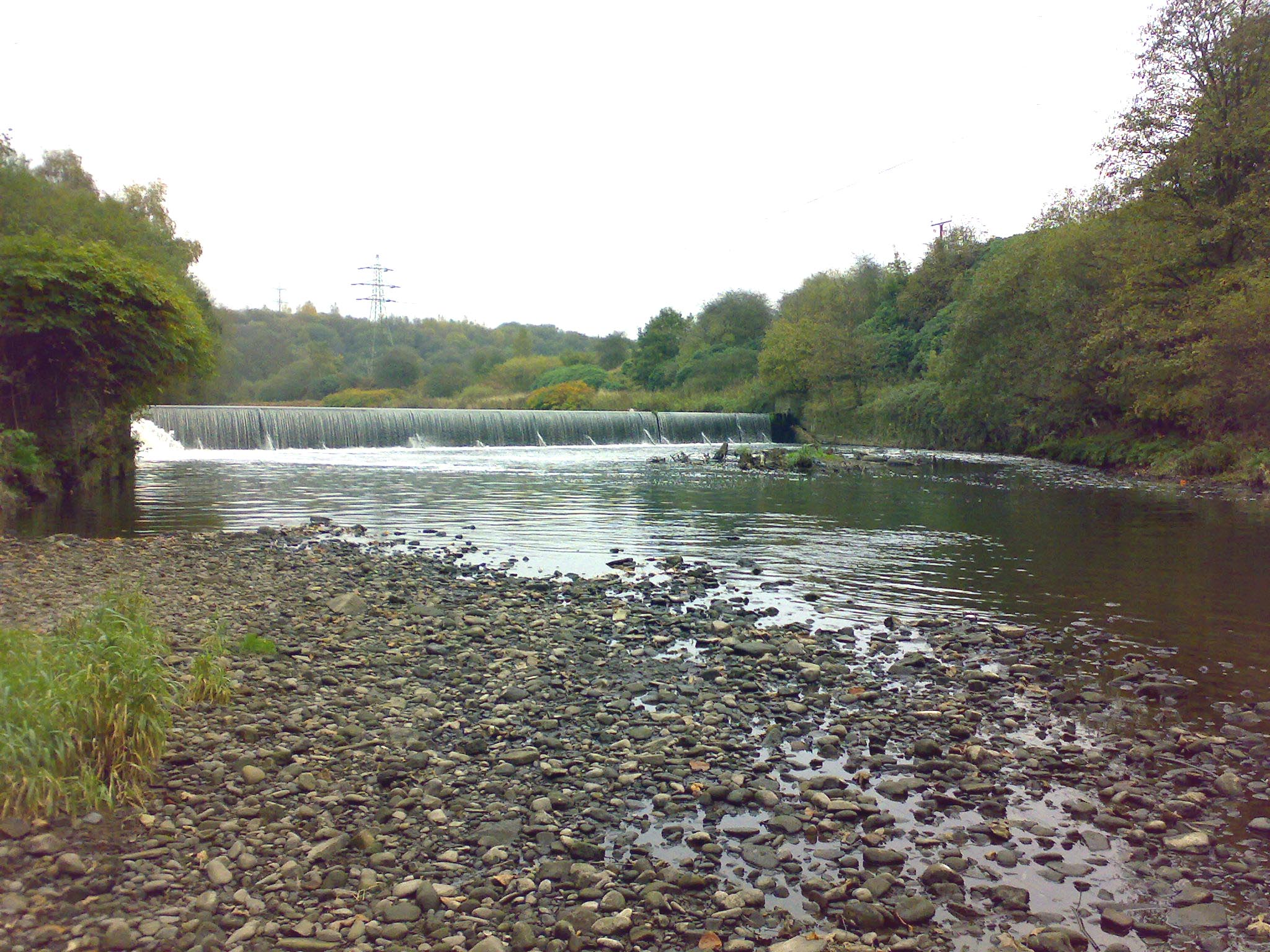 A weir at Ladyshore, on the Irwell. Water was originally diverted to the left of the image (northwest) to Lever Bank Bleach Works.